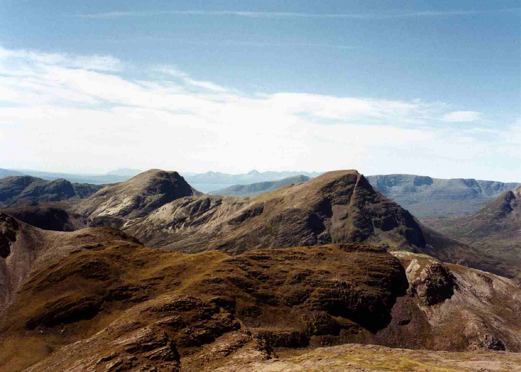 Personal photograph taken by Mick Knapton